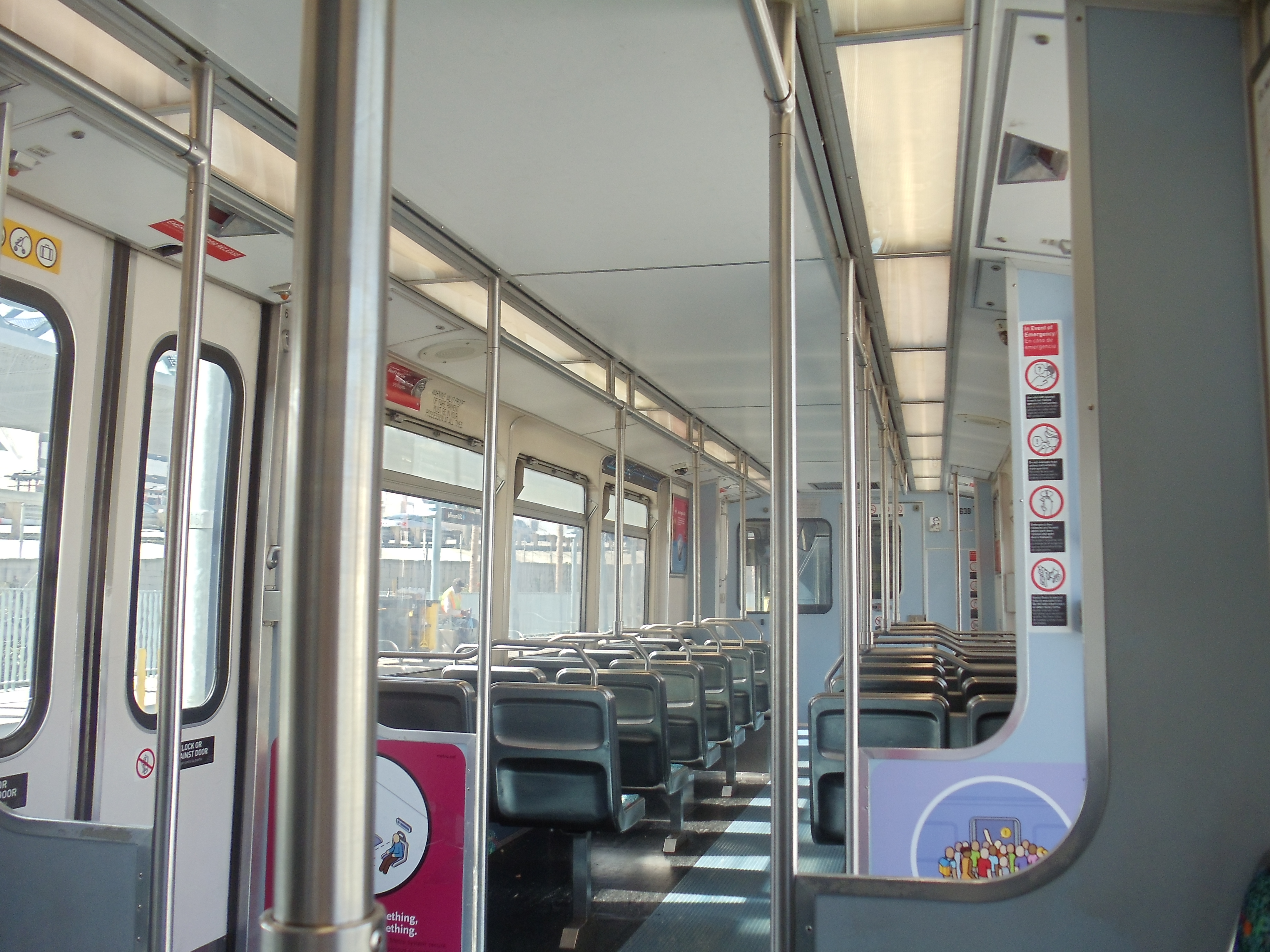 Metro Expo Line uses Nippon trains from the Metro Blue Line.